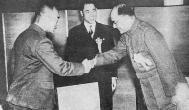 Wang Jingwei, Hideki Tojo and Subhas Chandra Bose in Tokyo (1943)